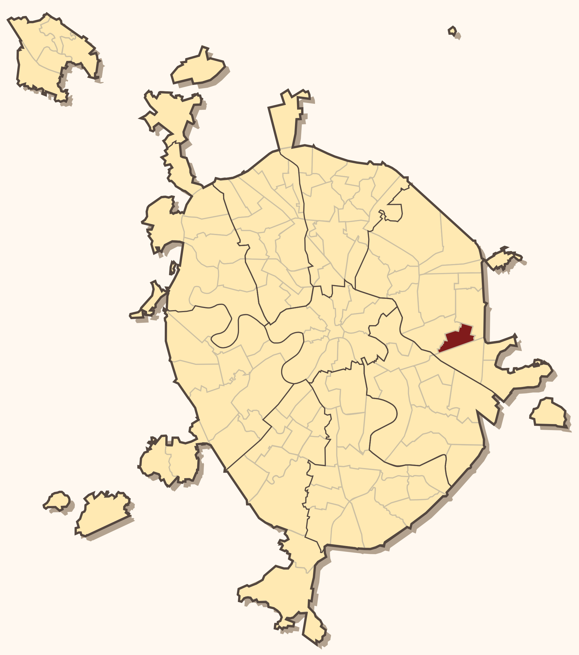 Moscow districts map